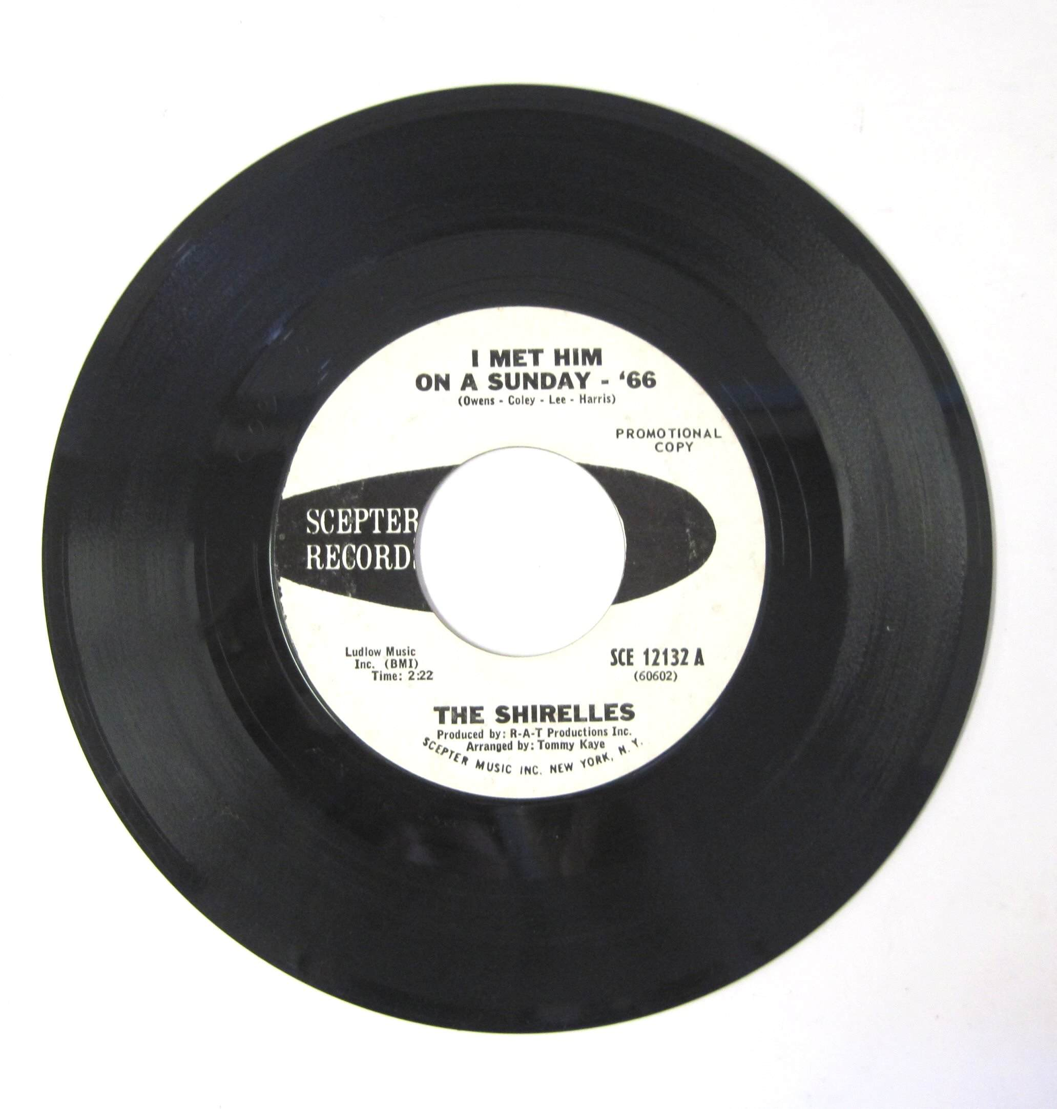 A promotional disc for The Shirelles' "I Met Him On a Sunday", released in 1966